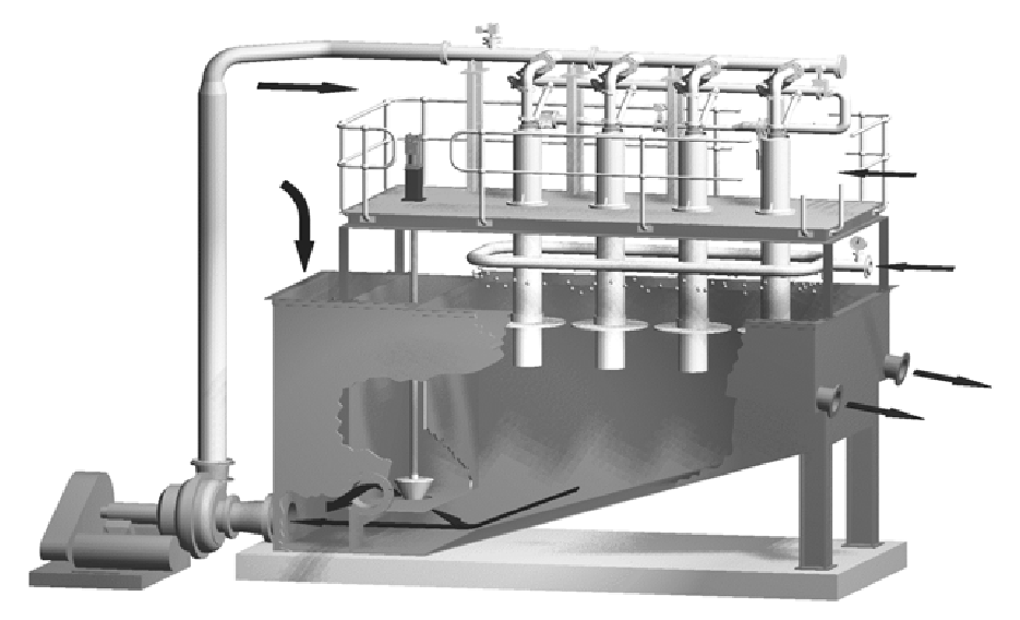 Drawing showing a Jameson Cell built with an internal tailings recycling mechanism.